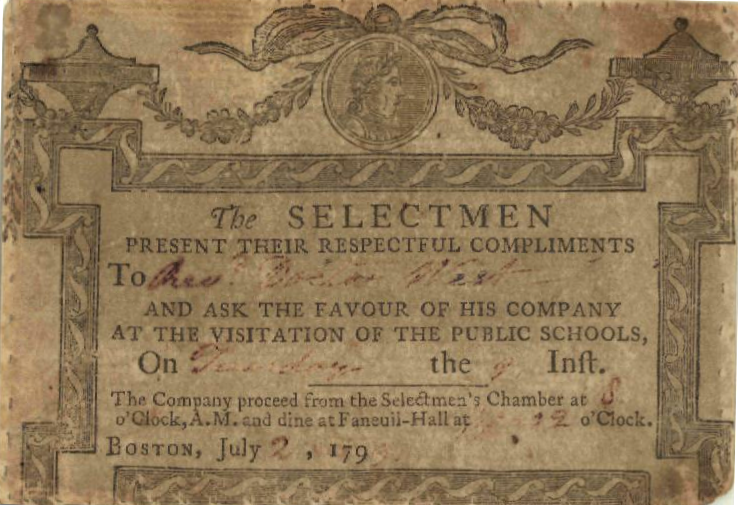 The Selectmen present their respectful compliments ... at the visitation of the public schools ... Boston, July 2, 1793.